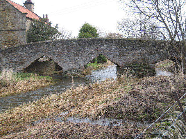 Footbridge in Aldbrough St John This photograph shows the footbridge that passes over Aldbrough Beck. The picture was taken from the north-west side of the bridge looking downstream in the direction of the village.